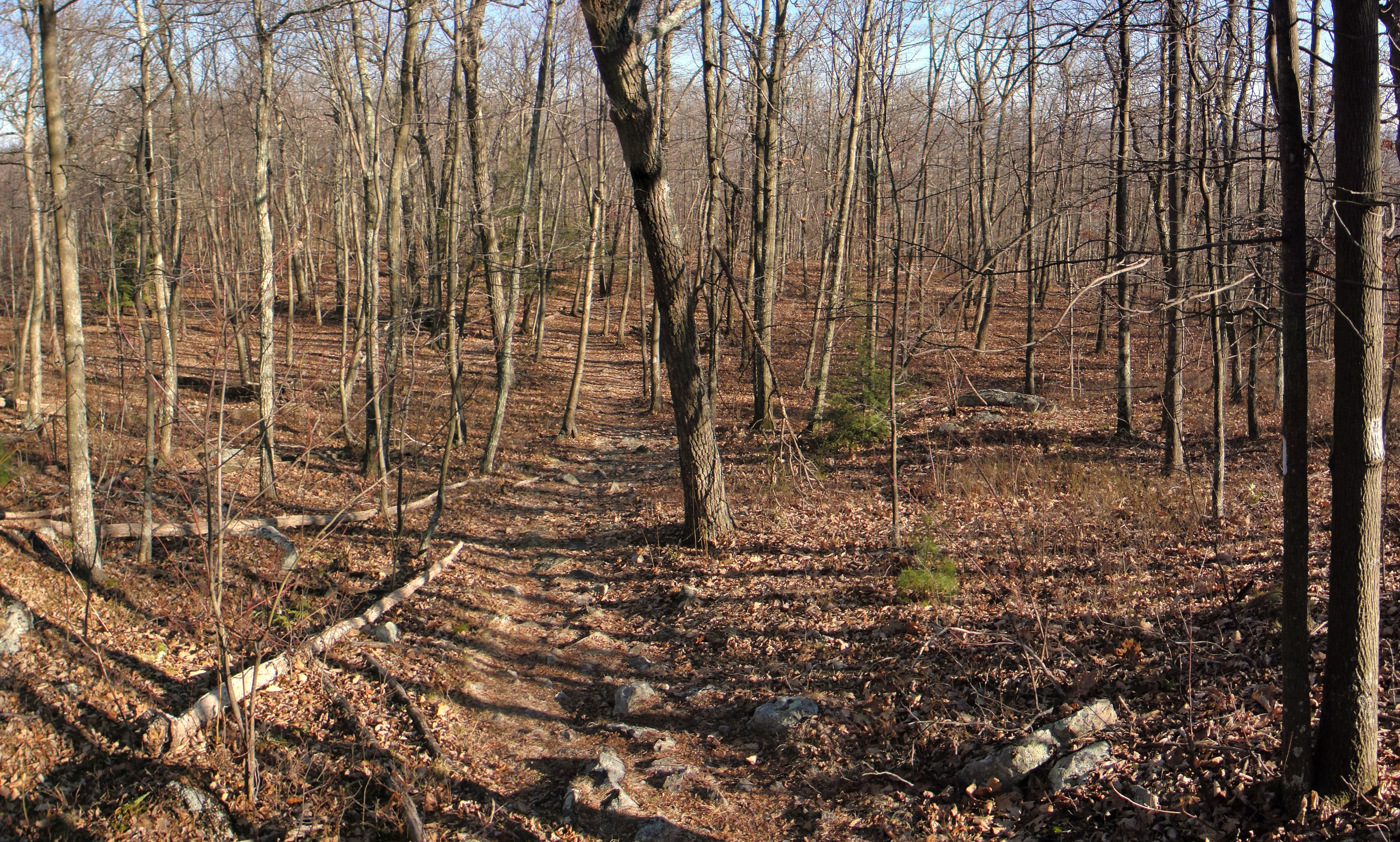 New Jersey Appalachian Trail